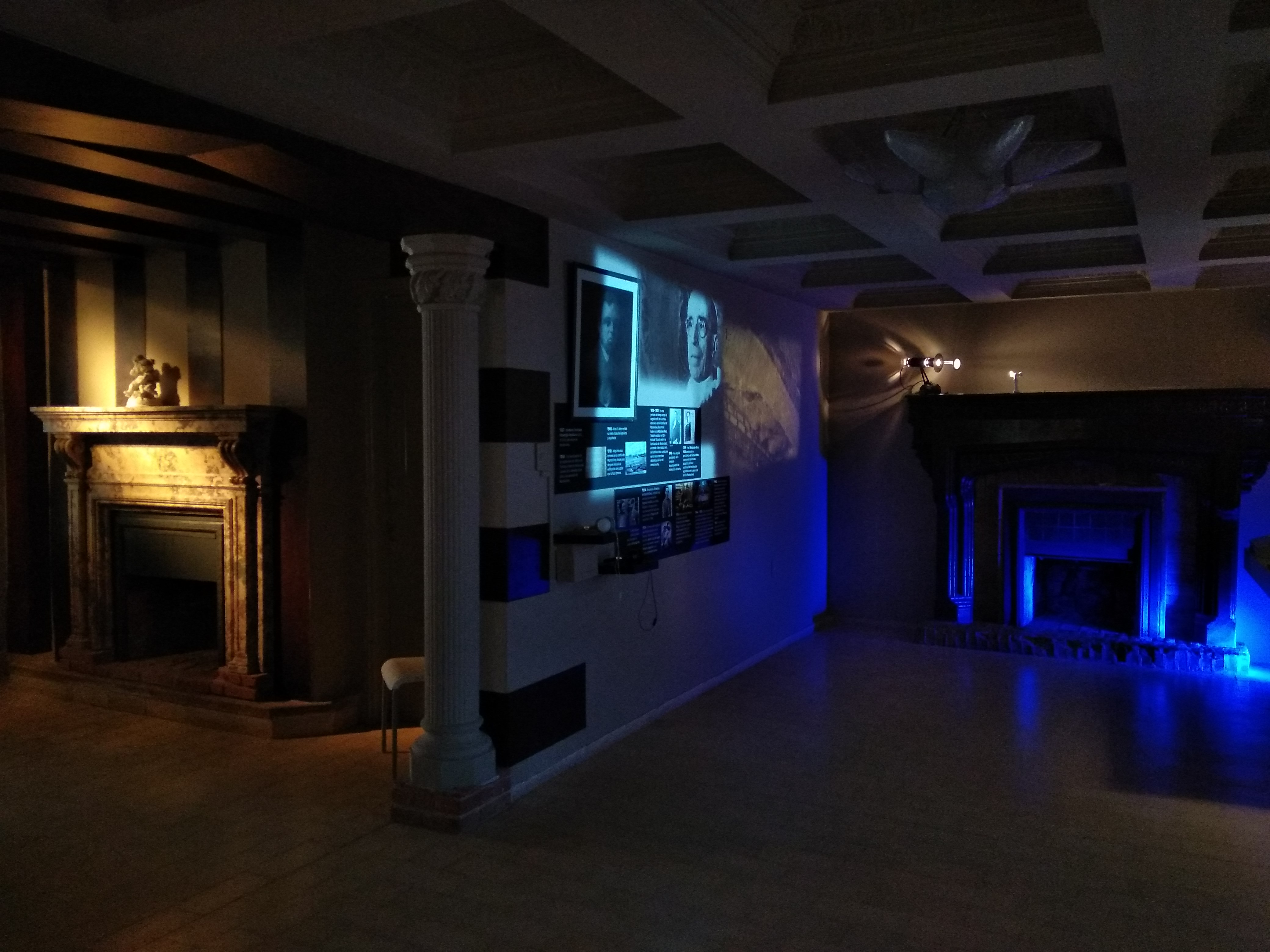 Interior of the interactive museum inside Pittamiglio Castle of Las Flores